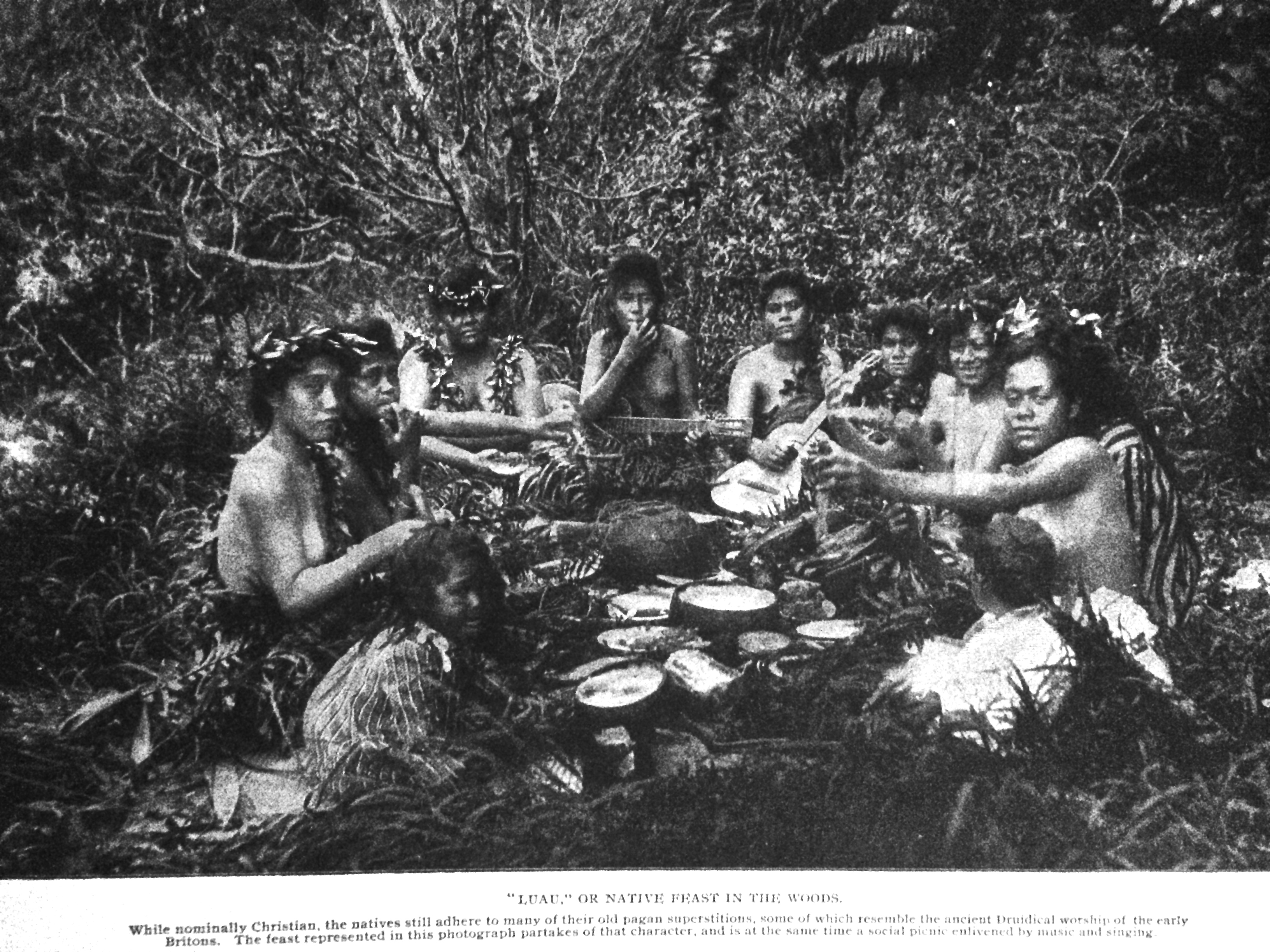 Hawaii Luau from 1899